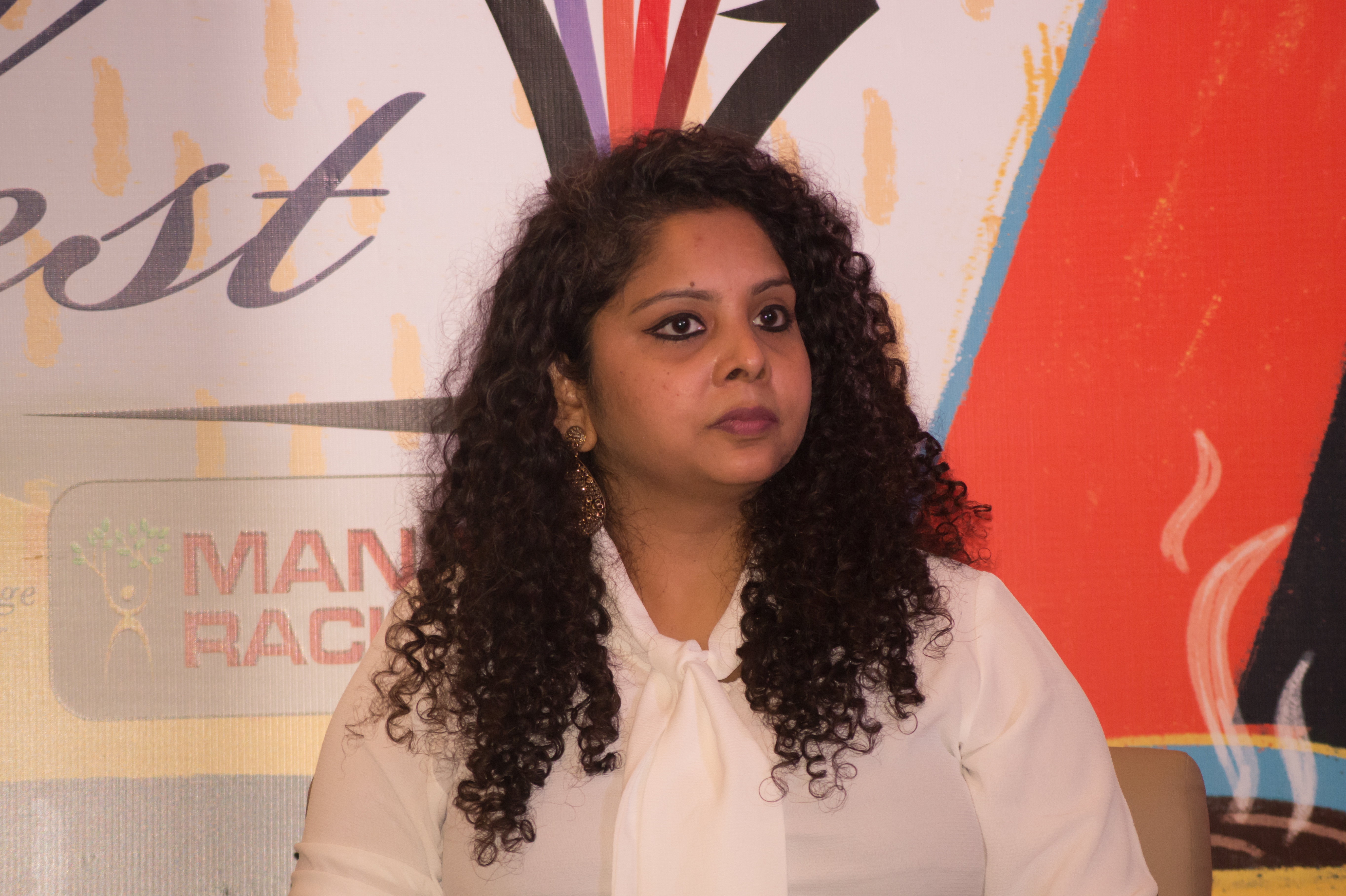 Rana Ayyub at Times Litfest 2016